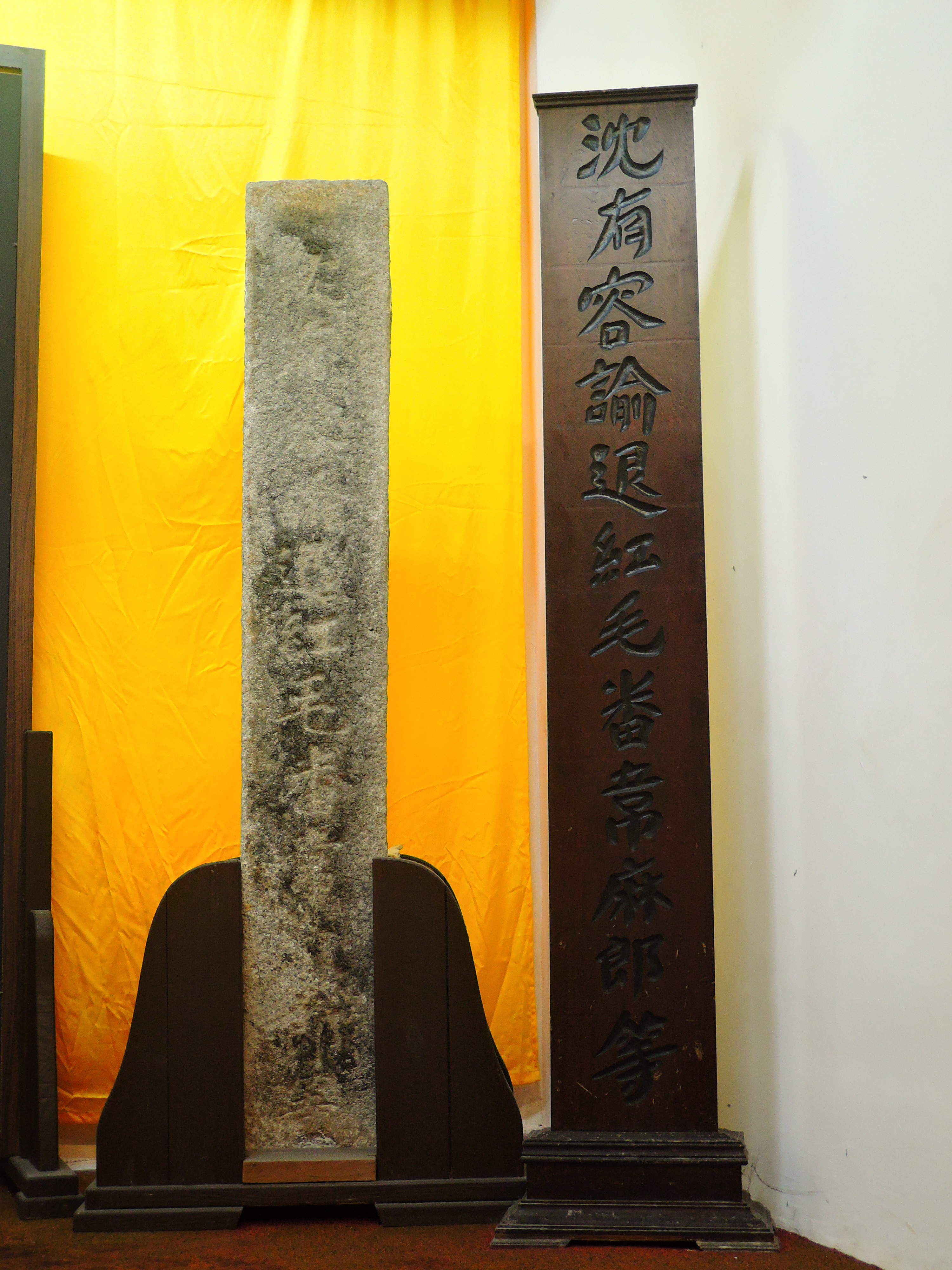 Ming Empire sent General Shen You Rong (沈有容, 1557-1628) to expel the VOC fleets from Pescadores. This event was recorded in a stone tablet: 「沈有容諭退紅毛番韋麻郎等」 (It means "Shen You Rong expelled Wijbrant and his people")